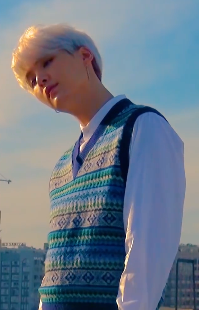 Suga in a photo shoot for Dispatch in November 2017, in Los Angeles, California, USA